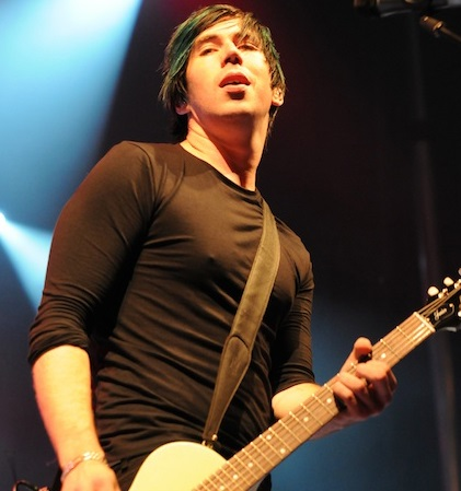 Ramsay at the Cisco Ottawa Bluesfest in 2010